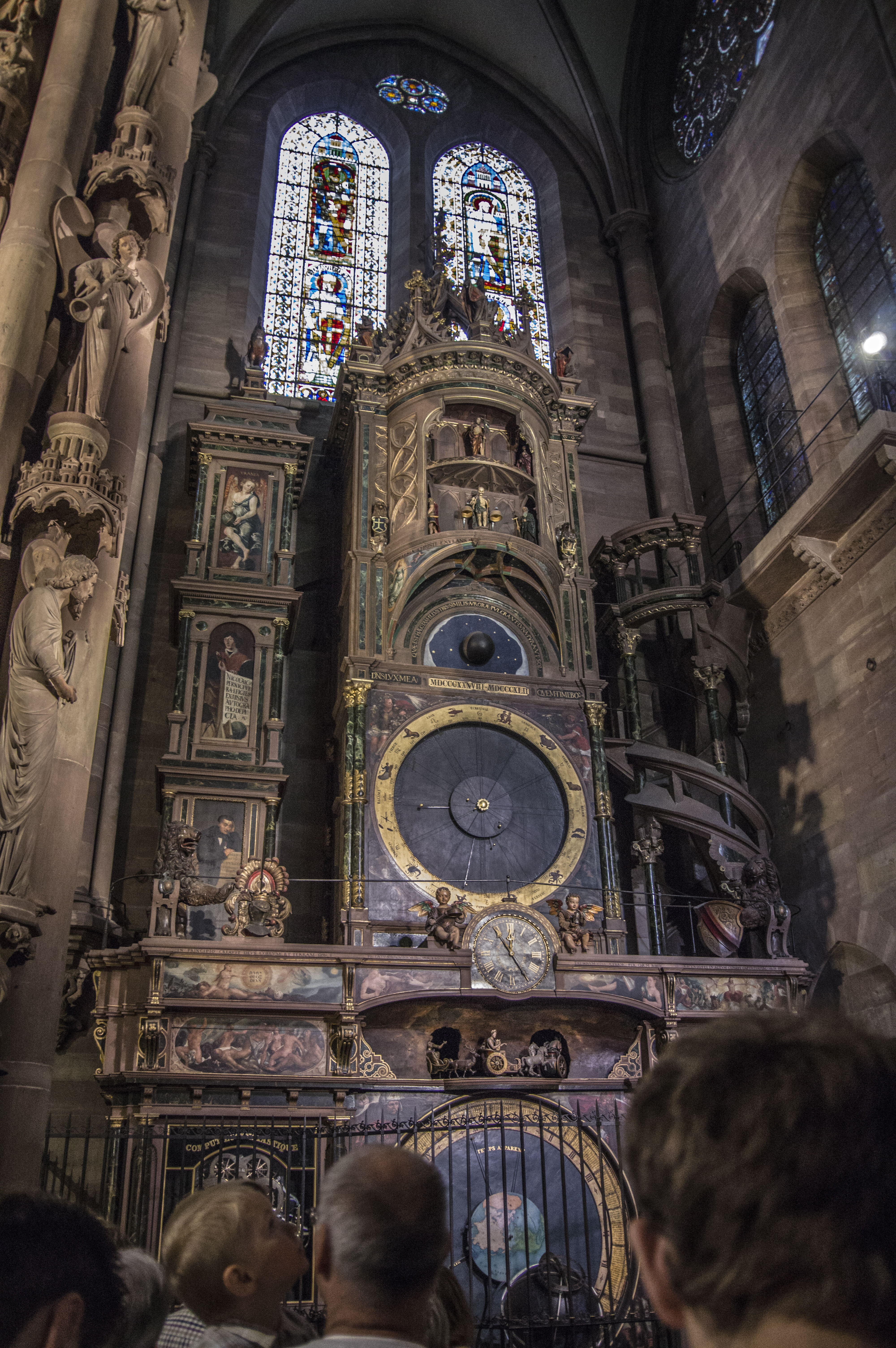 Cathédrale de Notre-Dame de Strasbourg Strasbourg astronomical clock